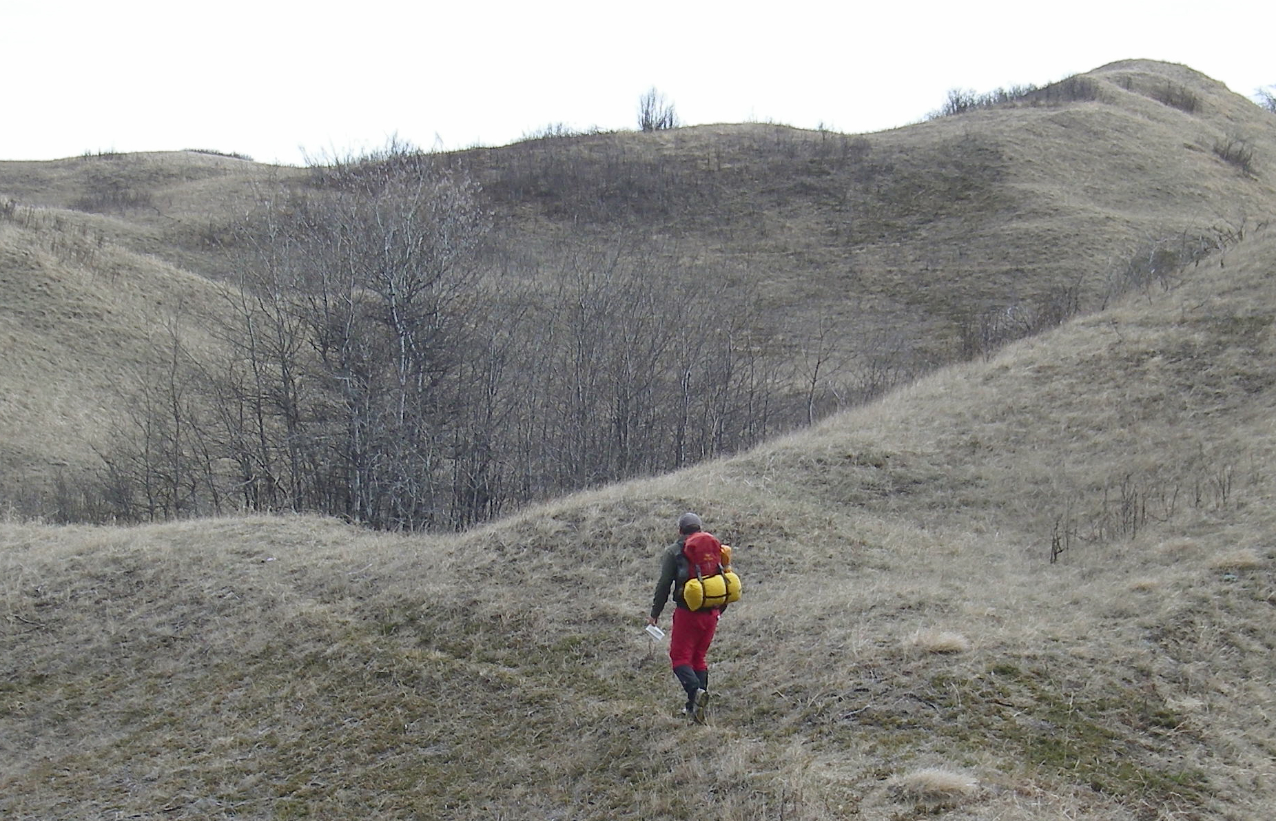 Dundurn Navigation Marathon 2007